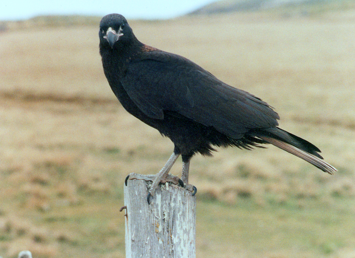 Shot by myself in the Falkland Islands